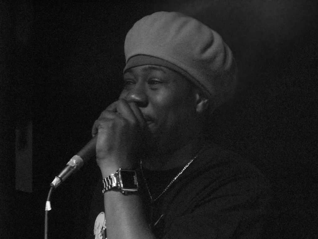 D.R.E.S. tha Beatnik performing in Atlanta, Georgia.